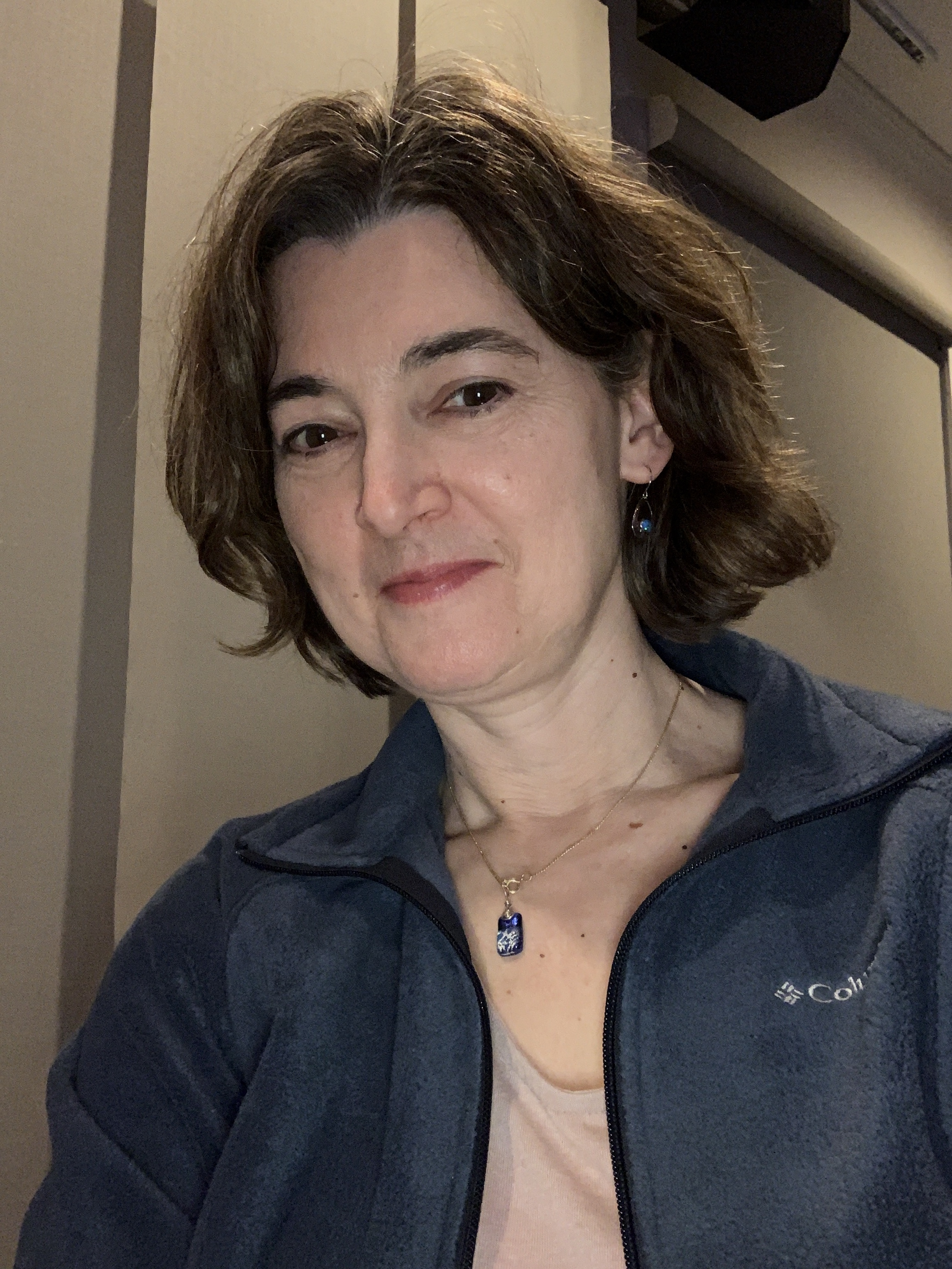 Photo of Lisa Porter, Professor of Materials Science and Engineering, Carnegie Mellon University